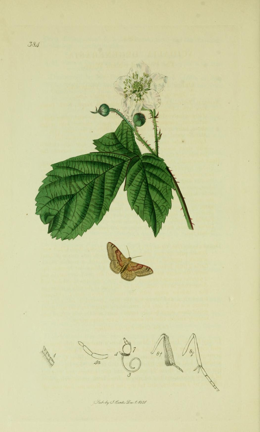 An illustration from British Entomology by John Curtis. Lepidoptera: Acidalia degenaria or Idaea degeneraria (Portland Ribbon Wave).